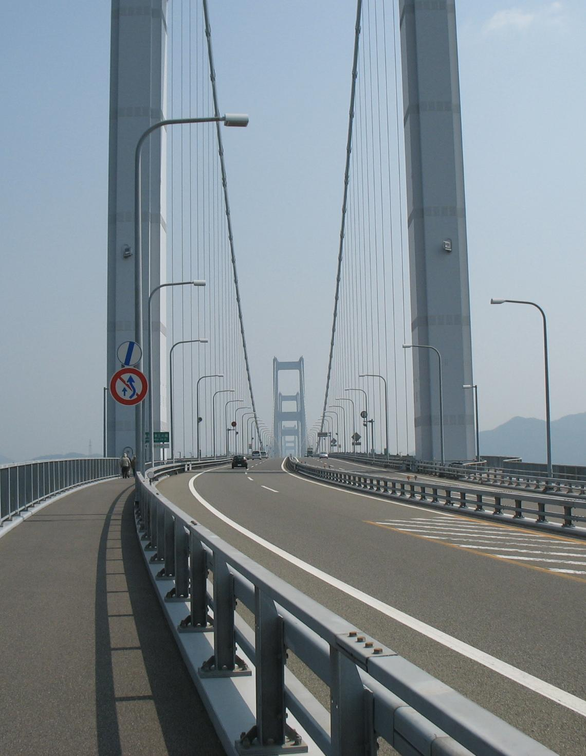 Roadway of the Kurushima-kaikyō Bridge. Photograph taken from the Shikoku (Imabari) side.